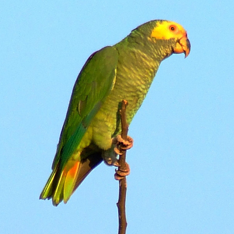 Yellow-faced Parrot (Alipiopsitta xanthops) also known as the Yellow-faced Amazon. Sacramento (Minas Gerais).